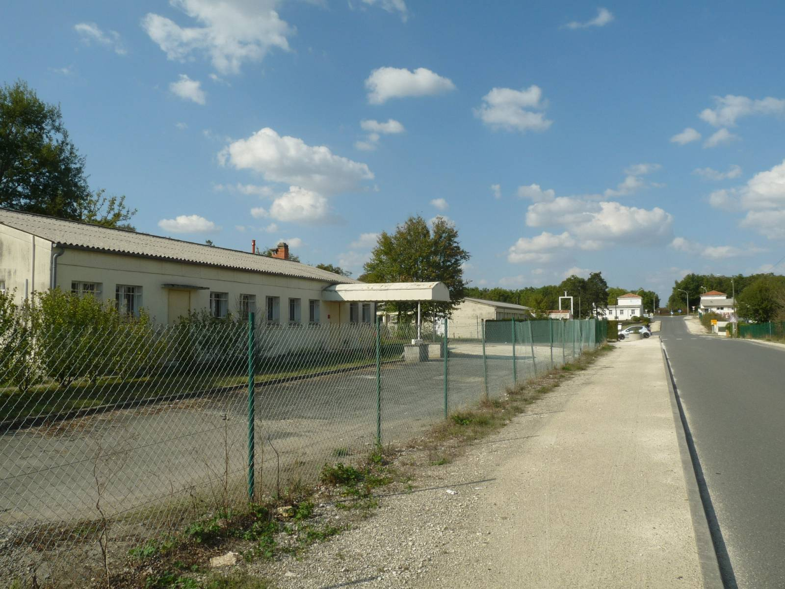 Former US military camp, now industrial estate, Braconne forest, Charente, SW France